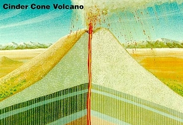 Structure of a cinder cone volcano.